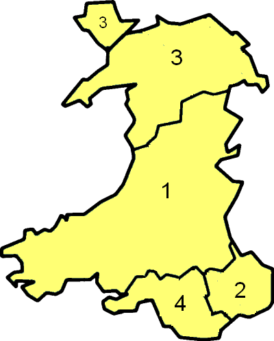 A Map of Wales to show where the Police Force Borders are.